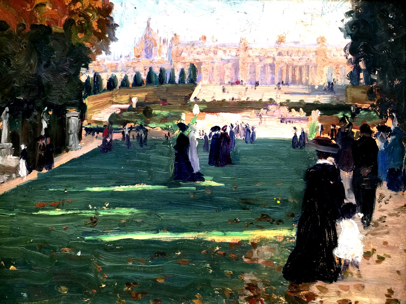 Untitled (Royal Avenue, Versailles). Oil on panel. Castlemaine Art Gallery and Historical Museum.